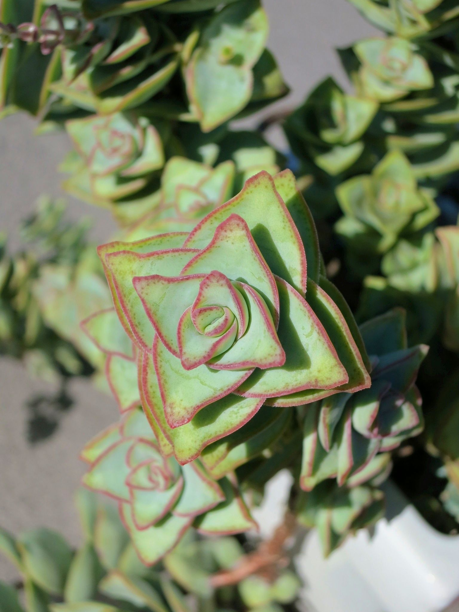 A crassula rupestris x perforata plant grown in a pot in Brisbane, Australia